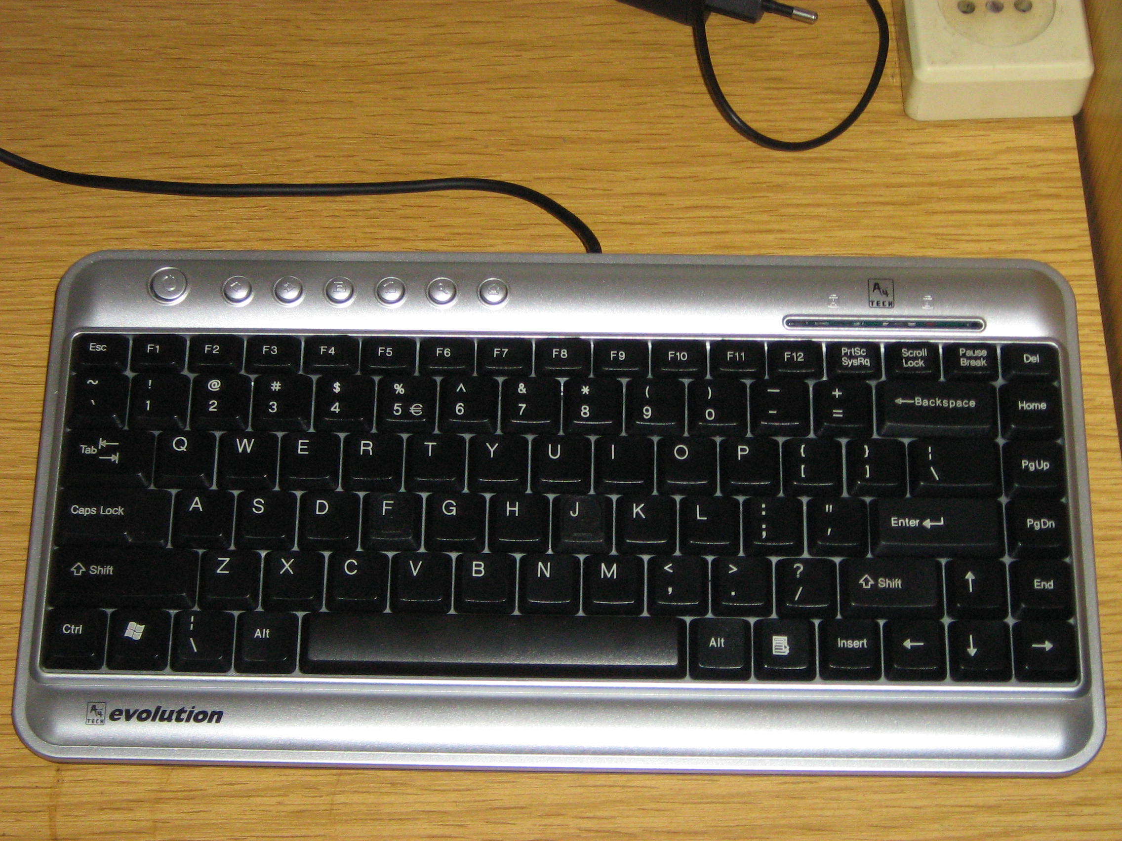 Mini-keyboard